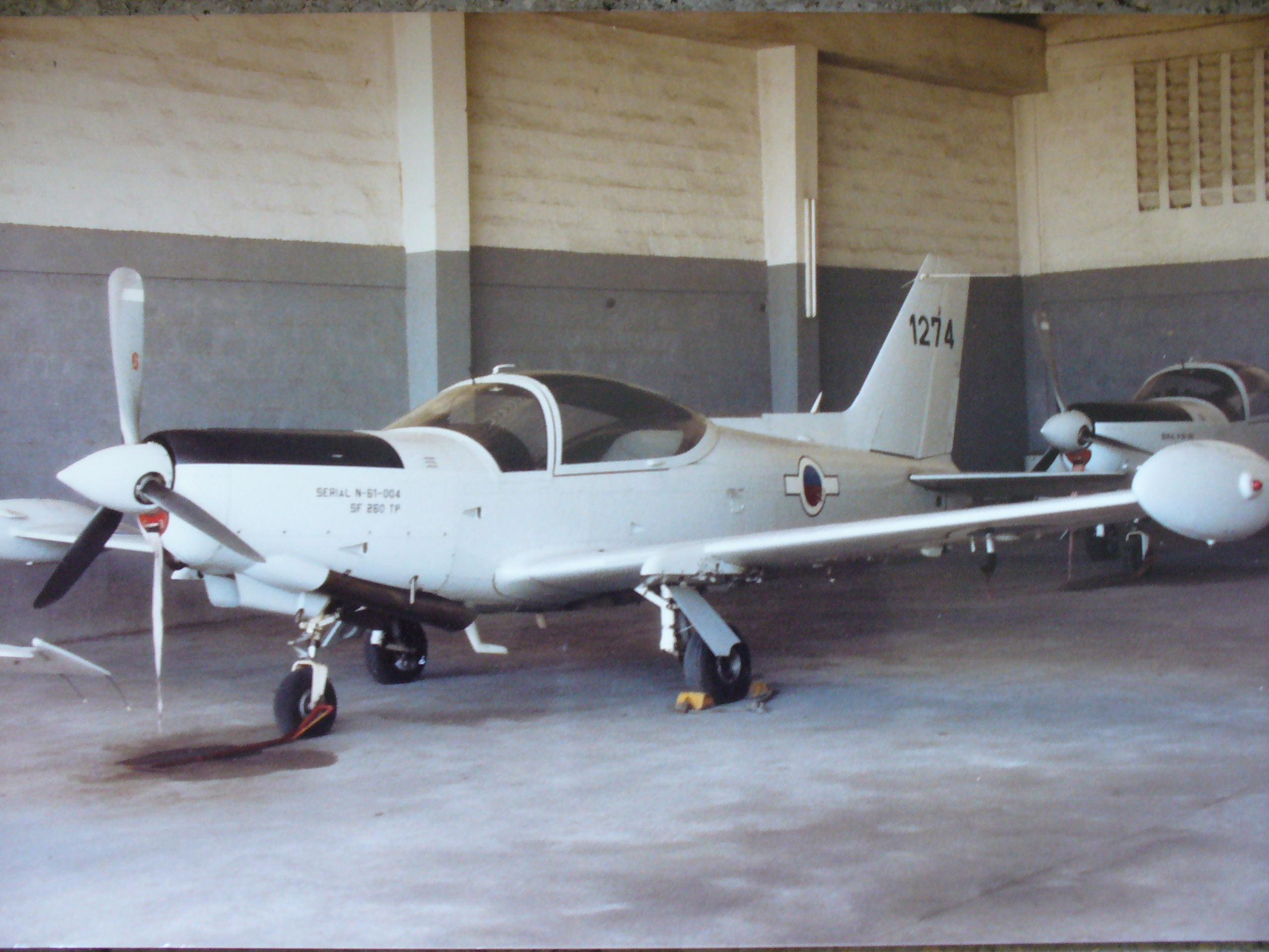 Marchetti SF-260TP of Corps d'Aviation Haiti. Photo taken September, 1990